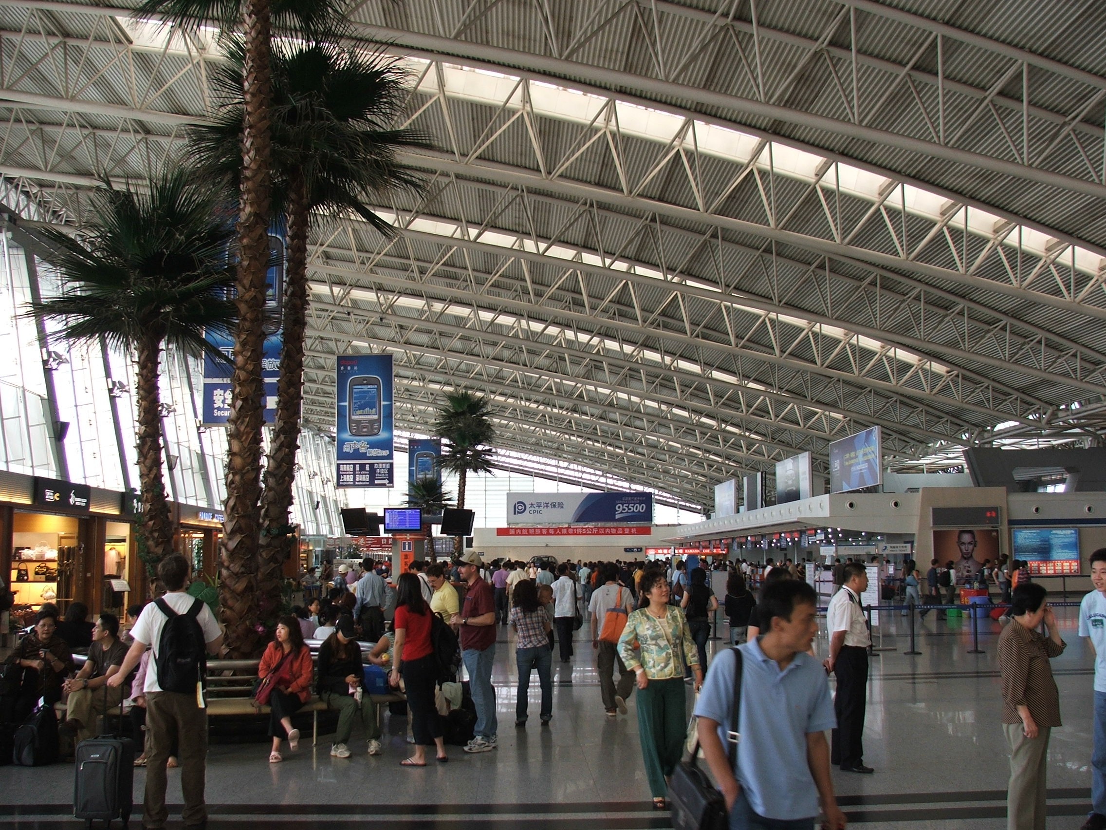 Xi'an Xianyang International Airport, interior of departure hall of this airport in Xi'an, province Shaanxi, China.